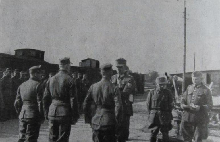 Warsaw Uprising. This photo shows the decoration of German soldiers. It was taken by Alfred Mensebach – German architect and volksdeutsch from Leszno who documented the planed destruction of Warsaw. His album with the photos from Warsaw Uprising was discovered in Leszno after the war by Polish authorities. Original description of the photo: “Decoration ceremony”.